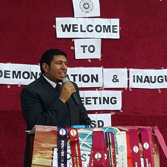 DTM Omer Farooq in Inaugural Meeting of Gavel Clubs in Bangladesh International School Dammam